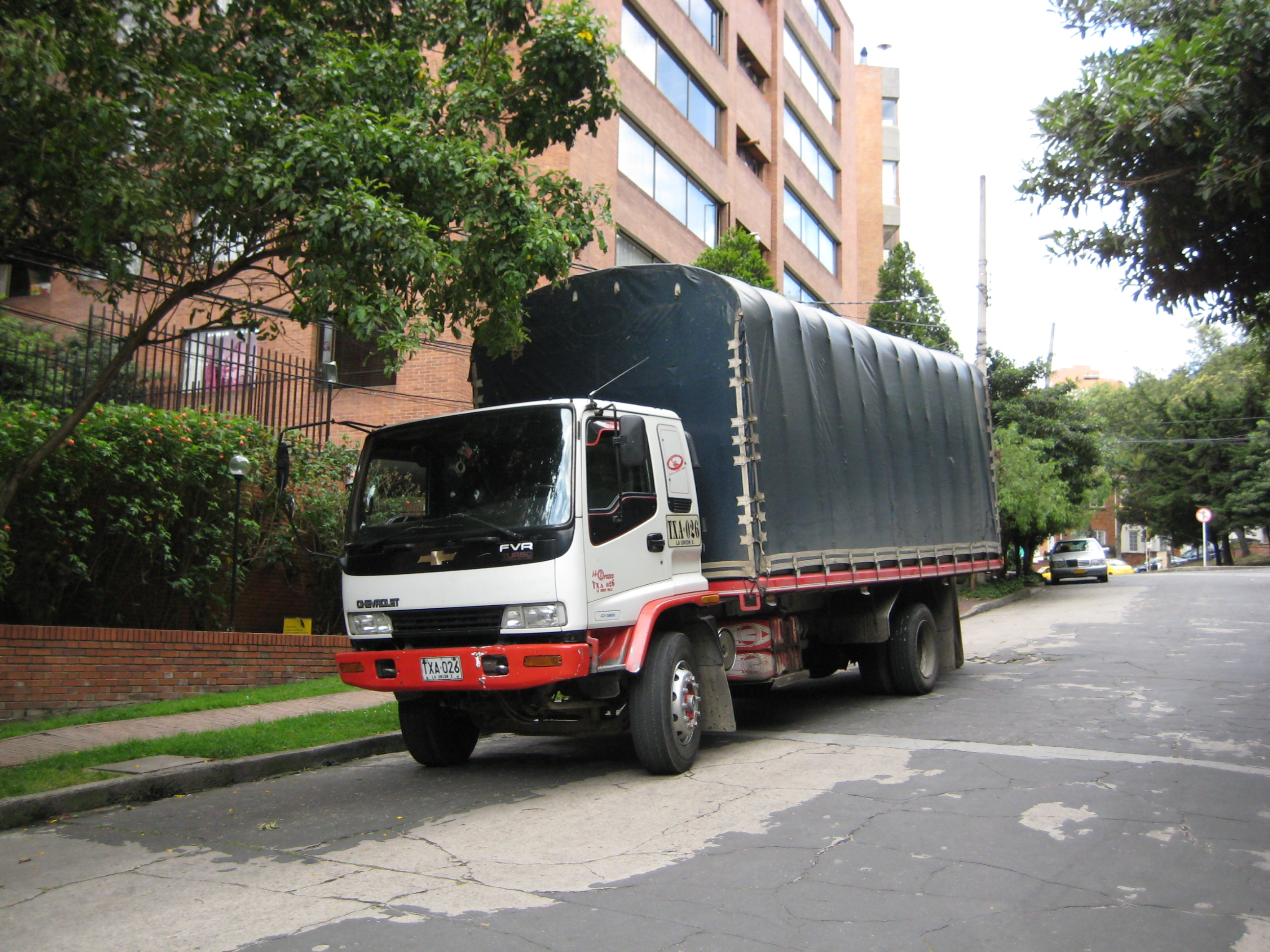 Chevrolet FVR truck photographed in Colombia. This is a rebadged Isuzu Forward, sold mainly in Latin America.